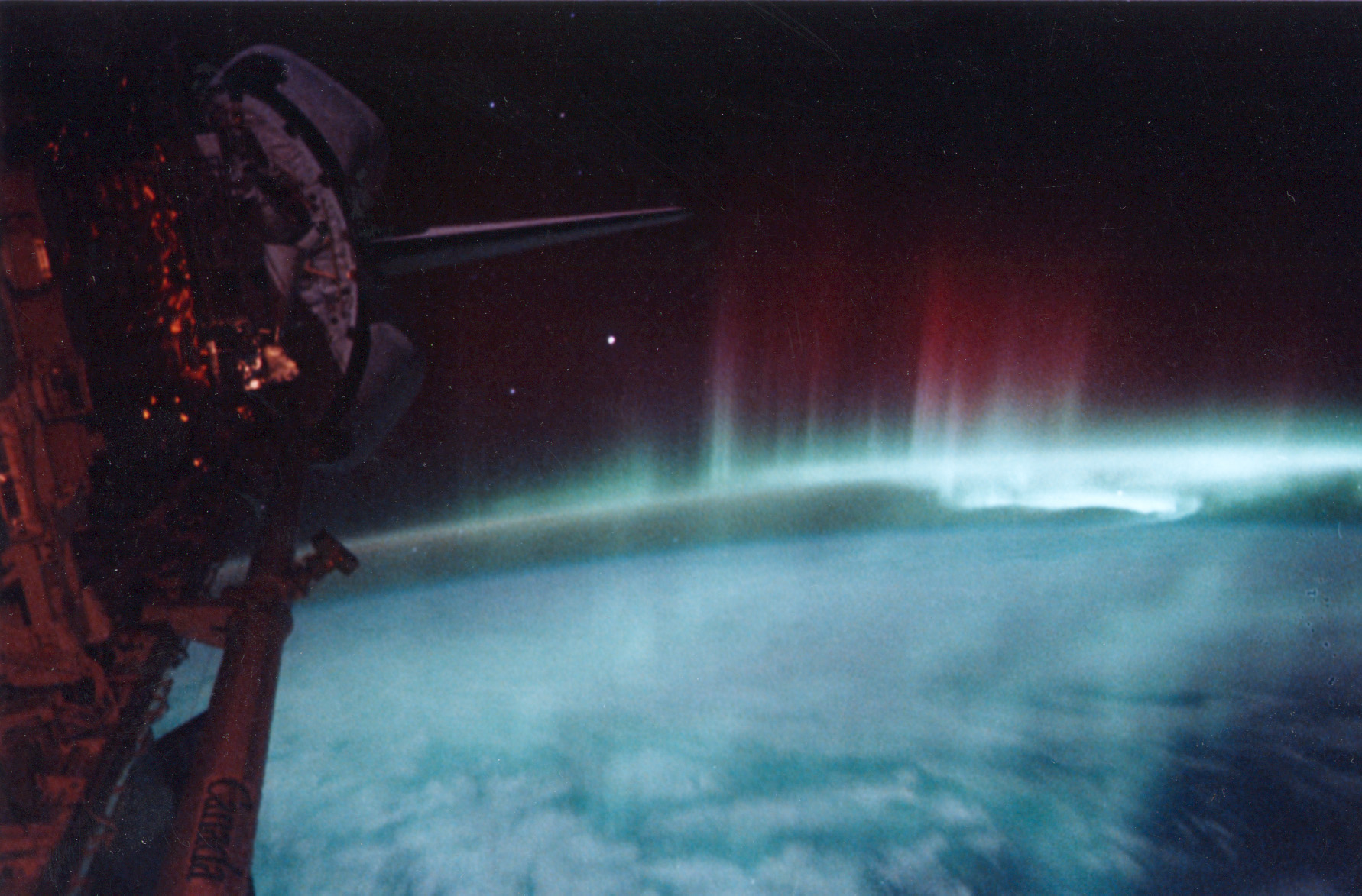 The Aurora Australis as seen from the Space Shuttle Discovery on STS-39. The payload bay and tail of Discovery can be seen on the left hand side of the picture. Auroras are caused when high-energy electrons pour down from the Earth’s magnetosphere and collide with atoms. Red aurora occurs from 200 km to as high as 500 km altitude and is caused by the emission of 6300 Angstrom wavelength light from oxygen atoms. Green aurora occurs from about 100 km to 250 km altitude and is caused by the emission of 5577 Angstrom wavelength light from oxygen atoms. The light is emitted when the atoms return to their original unexcited state.